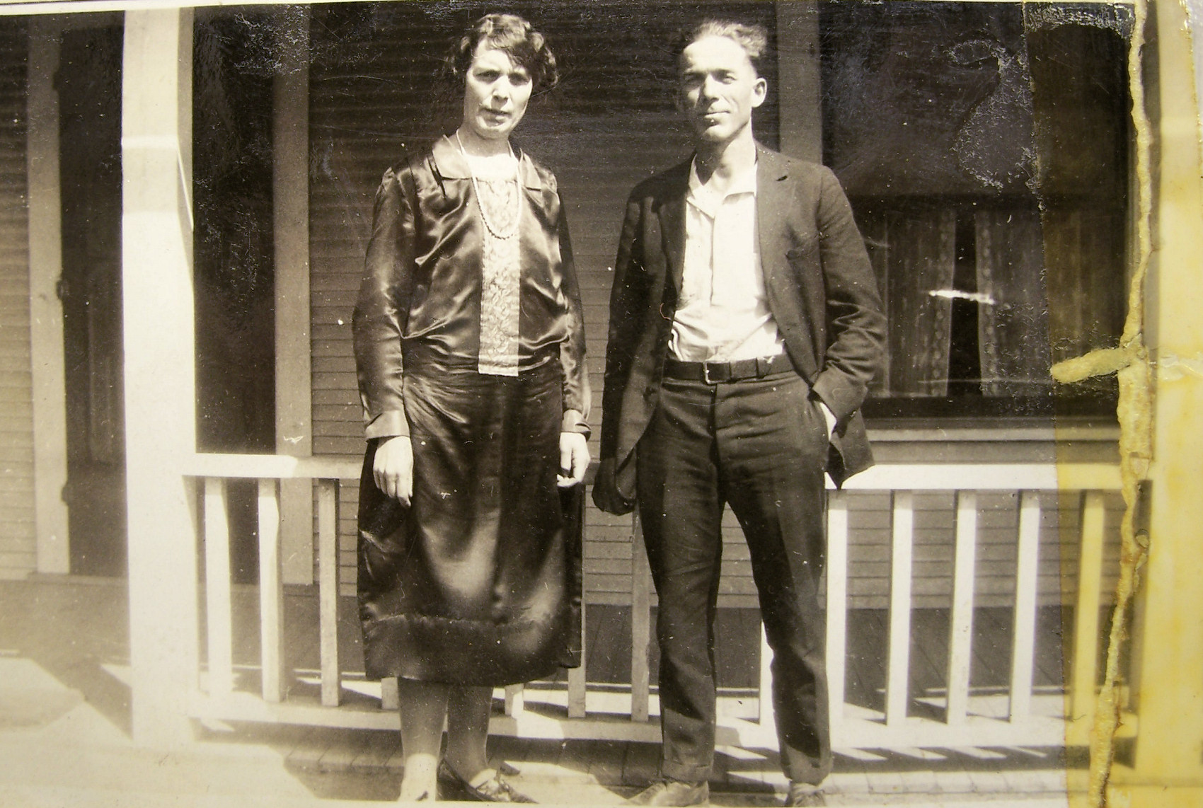 Man and woman in front of house.